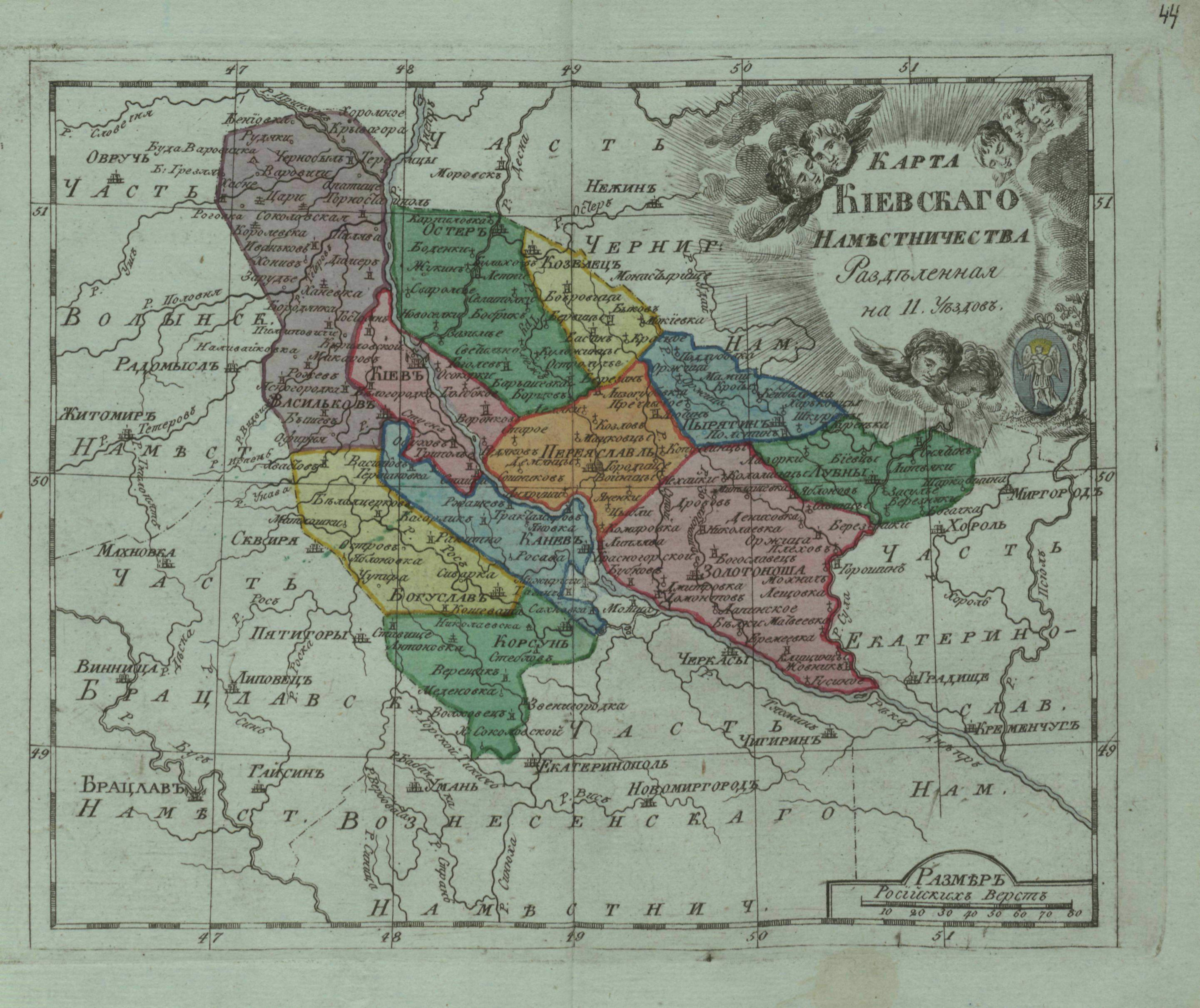 Small atlas of the Russian Empire (1796). Map of Kiev Namestnichestvo (map 44).